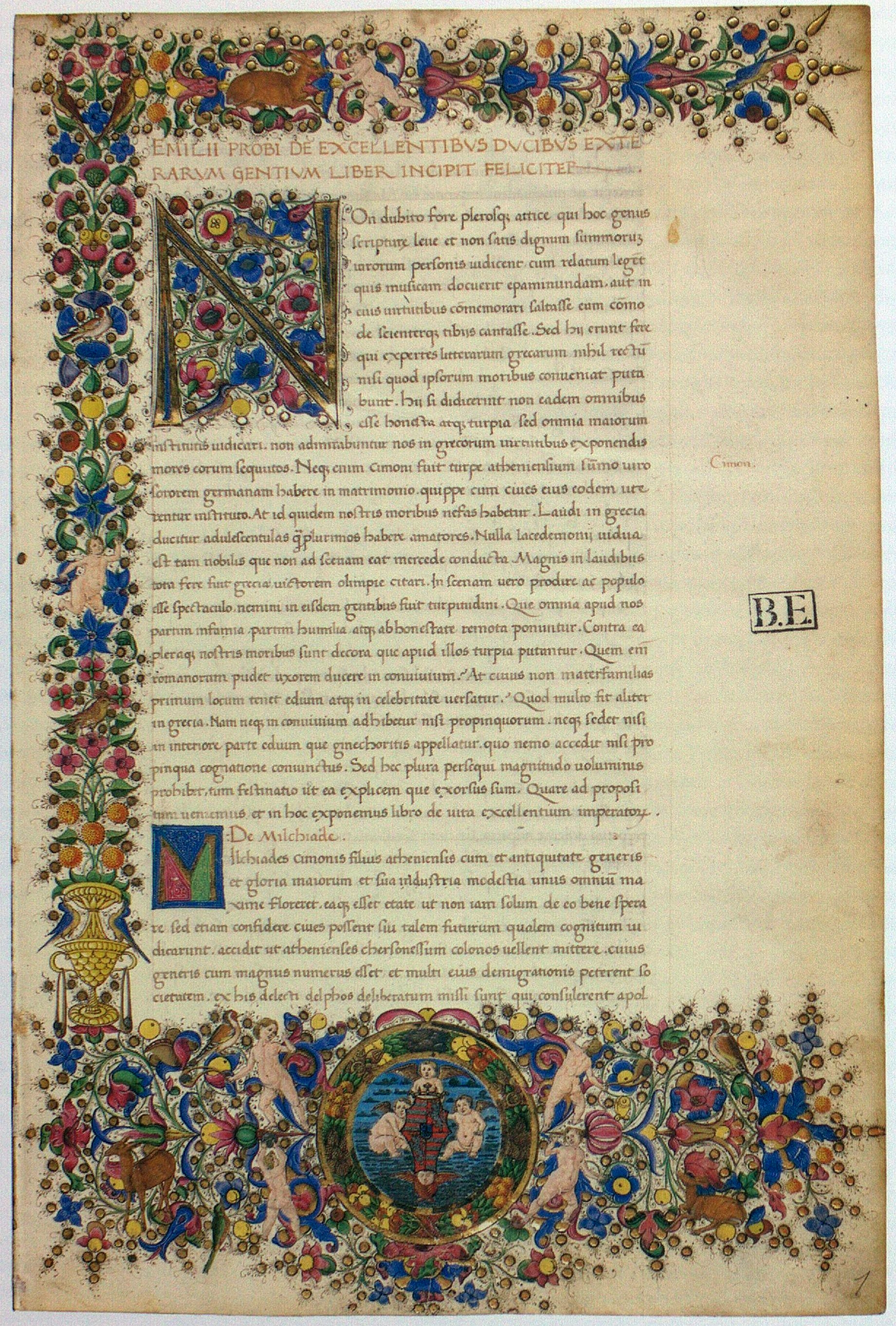 The beginning of Cornelius Nepos’ „De excellentibus ducibus exterarum gentium“ in the manuscript Modena, Biblioteca Estense Universitaria, Q.4.15 (= Cod. Lat. 437), fol. 1r.